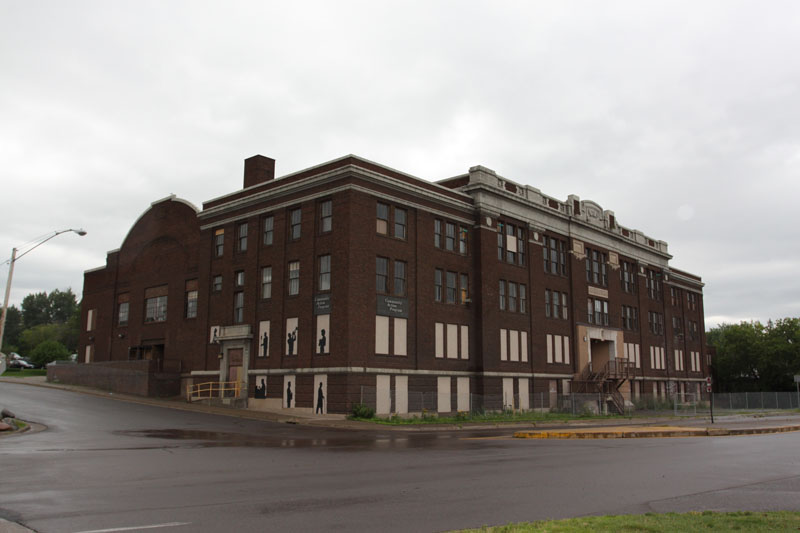 Southeast corner of the NRHP-listed Duluth Armory in Duluth, Minnesota.